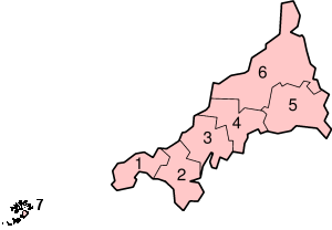 Districts in Cornwall, with the Isles of Scilly: Penwith Kerrier Carrick Restormel Caradon North Cornwall Isles of Scilly (Unitary)